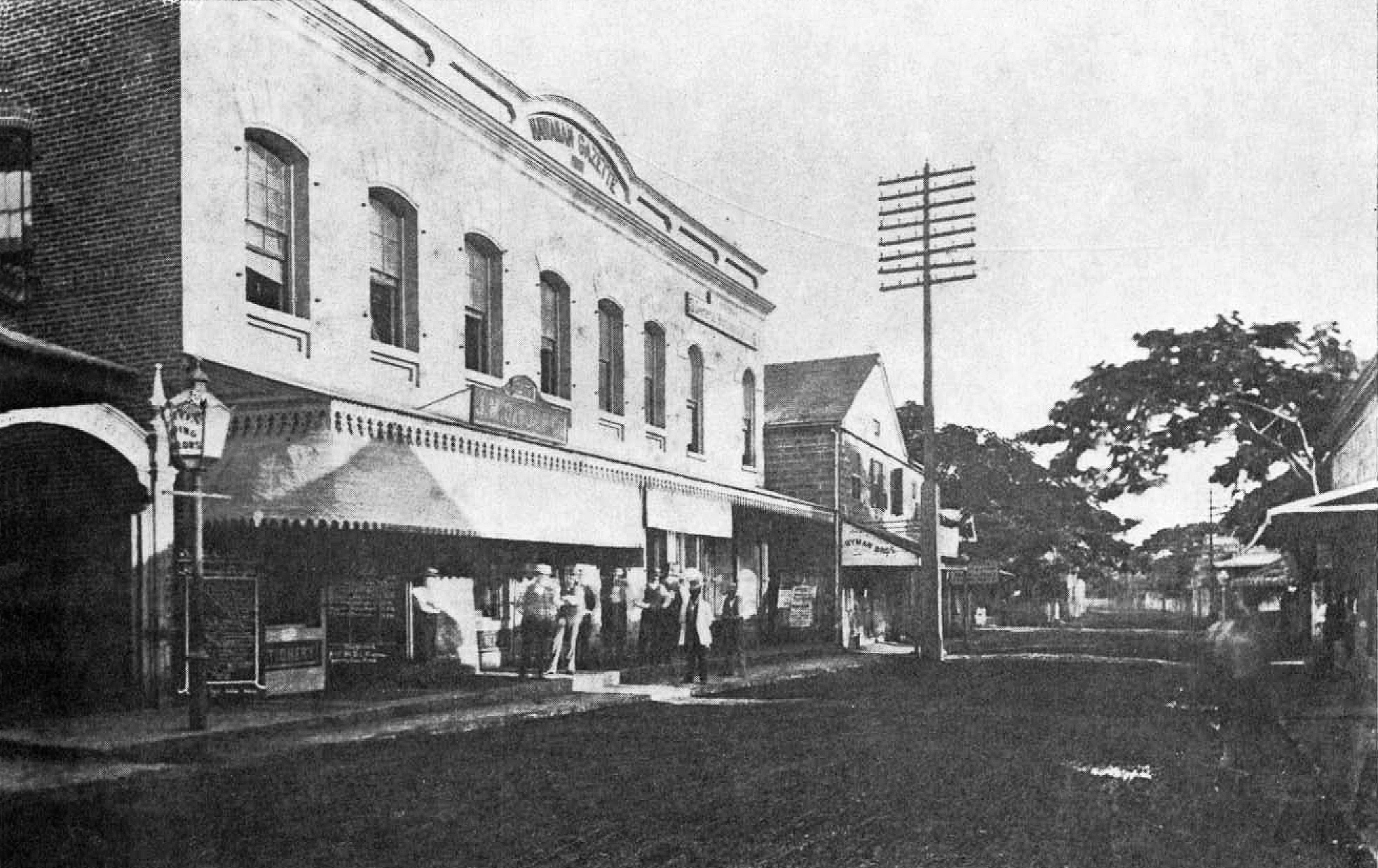 Merchant Street between Bethel and Fort Street in Honolulu, Hawaii, was known as "printers row" in the 19th century. The Hawaiian Gazette company was purchased by Henry Martyn Whitney (1824–1904)in 1873. This building was built on the site of a former hotel and saloon in 1881 and opened in 1882. The ground floor appears to be the store of James W. Robinson, who started the Honolulu Daily Bulletin in 1883.